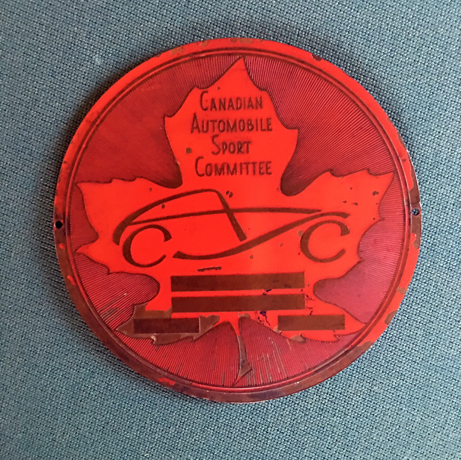 This original logo for the CASC was designed in 1951 by Jack Luck for the club's founder, Marshall Green.